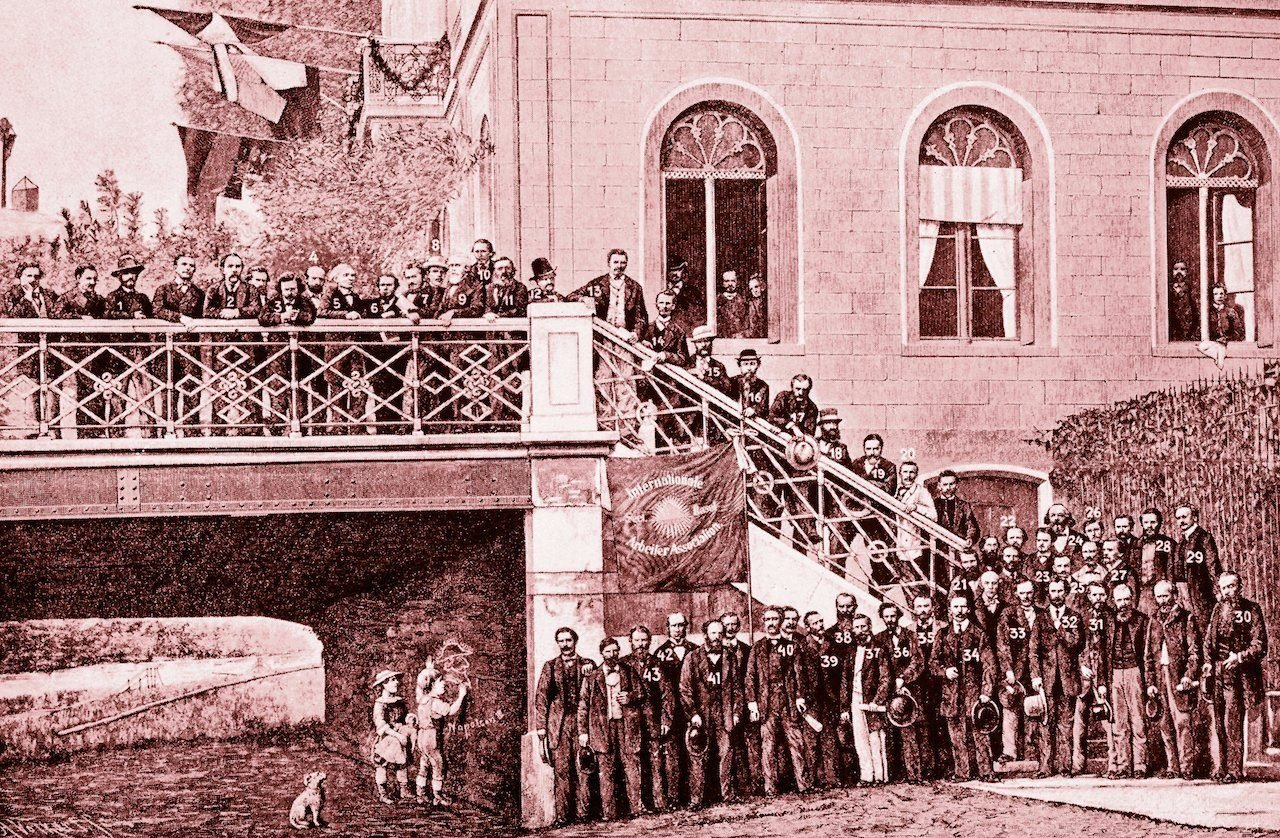 Deligates of the Basle Kongress of the I.W.A. 1869